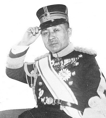 Shigeru Honjo